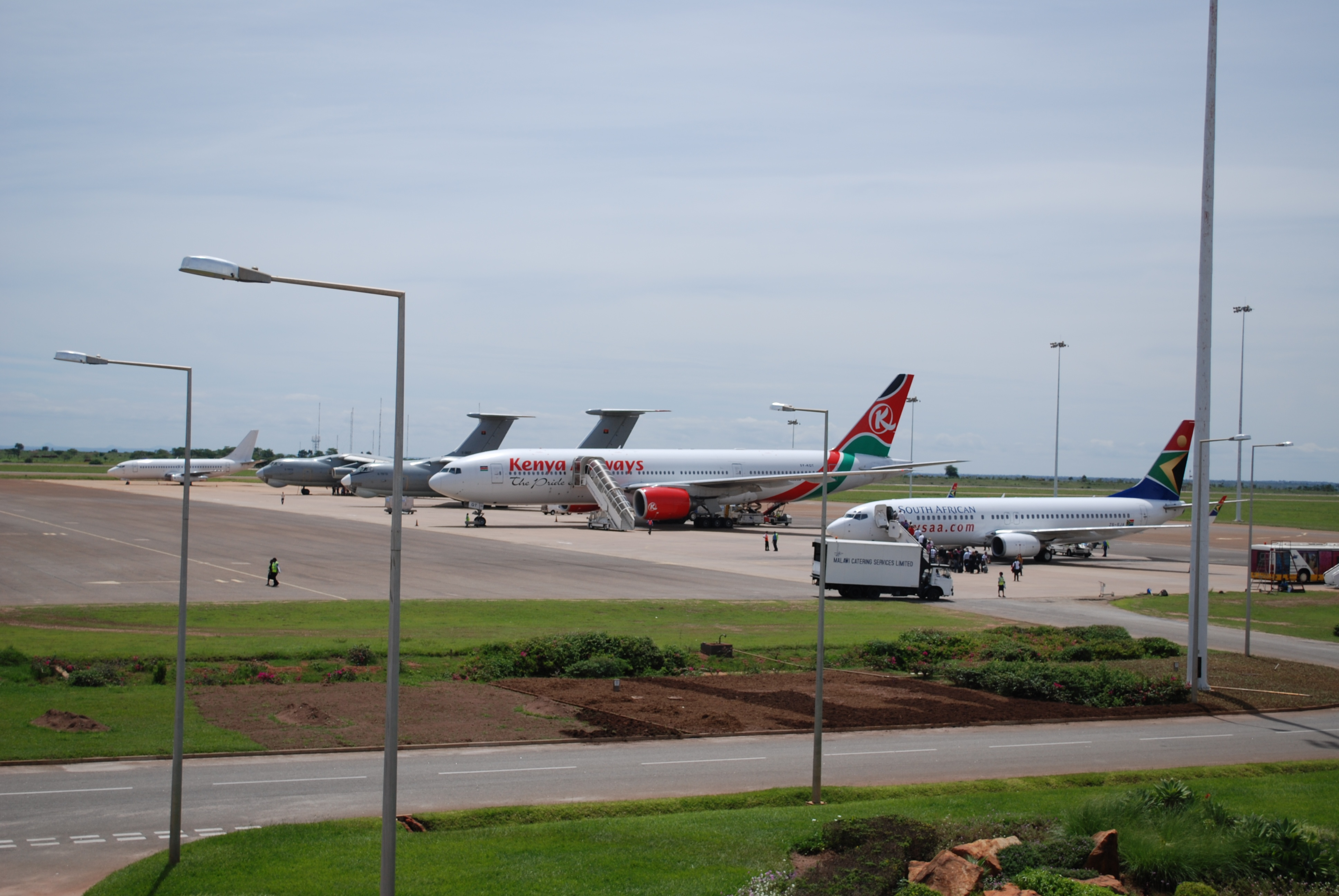 Kenya Airways and South African Airways planes ready to leave Lilongwe